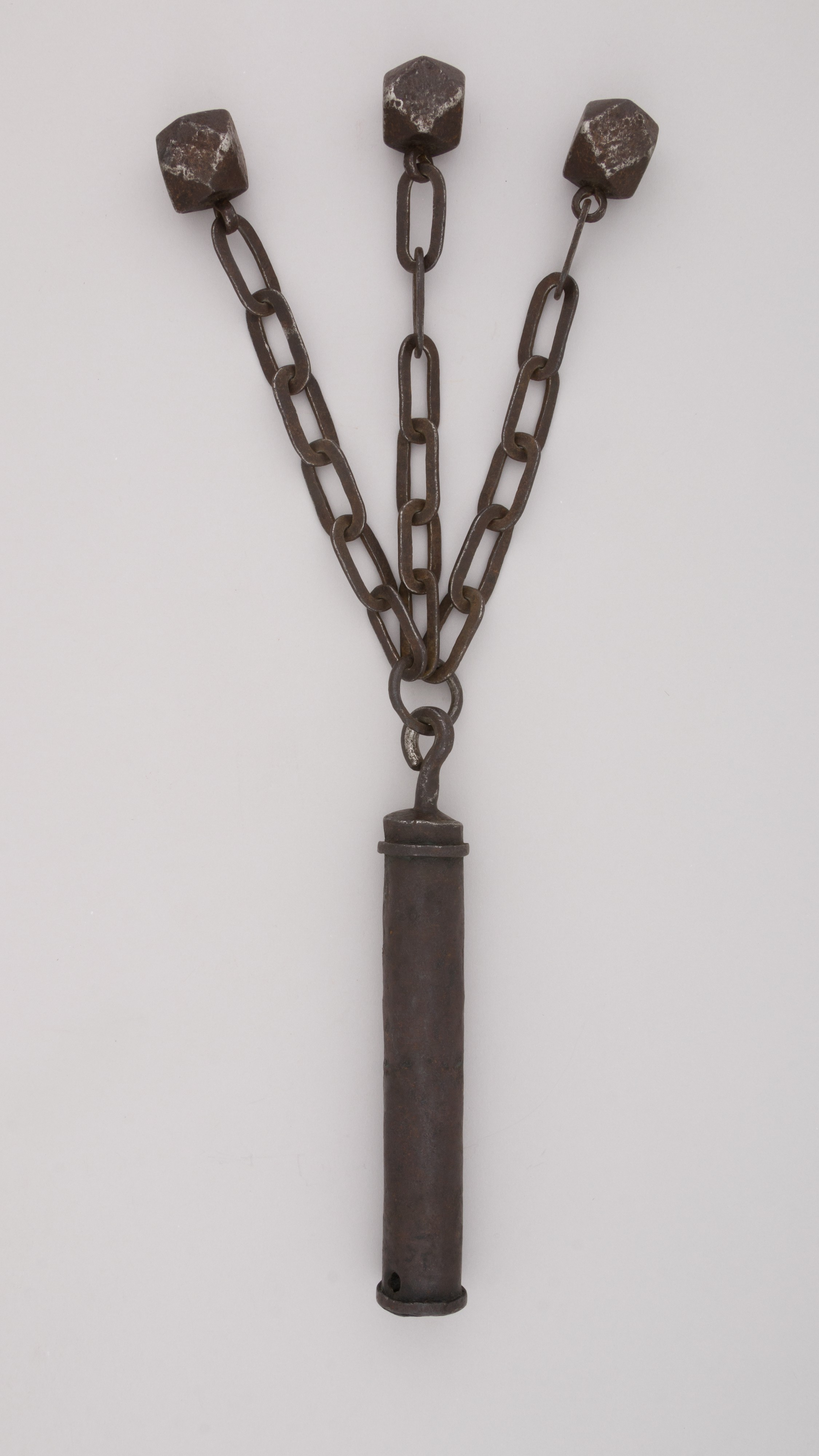 Possibly German; Military flail; Shafted Weapons